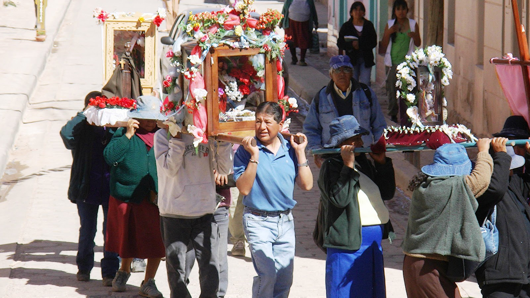 "Misachico" in the Argentine Northwest